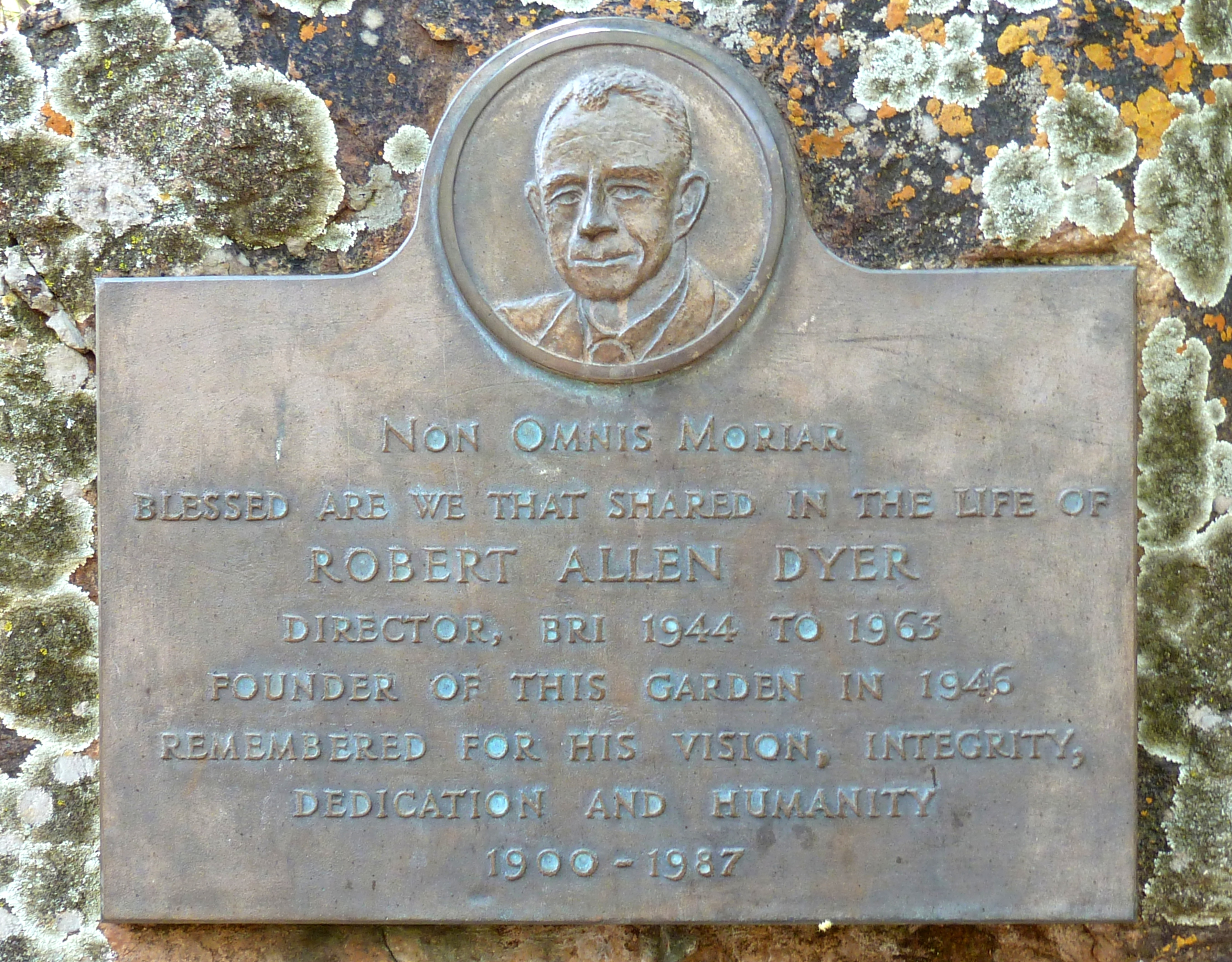 Non omnis moriar (Not all of me will die) Blessed are we that shared in the life of Robert Allen Dyer Director BRI (1944-63) Founder of this garden in 1946 remembered for his vision, integrity, dedication and humanity 1900-1987